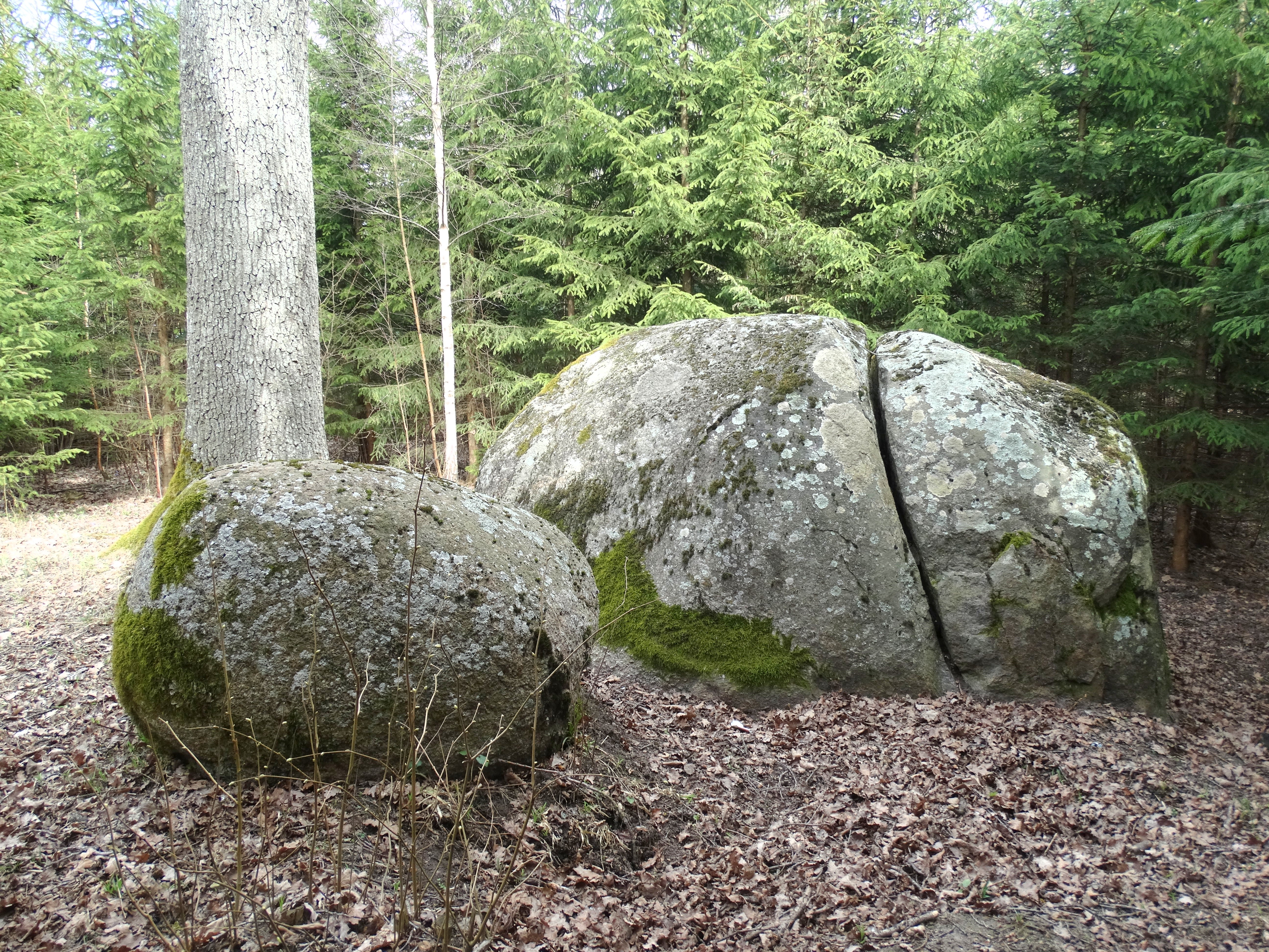 Devil's stone in Baisogala forest, Radviliškis District, Lithuania